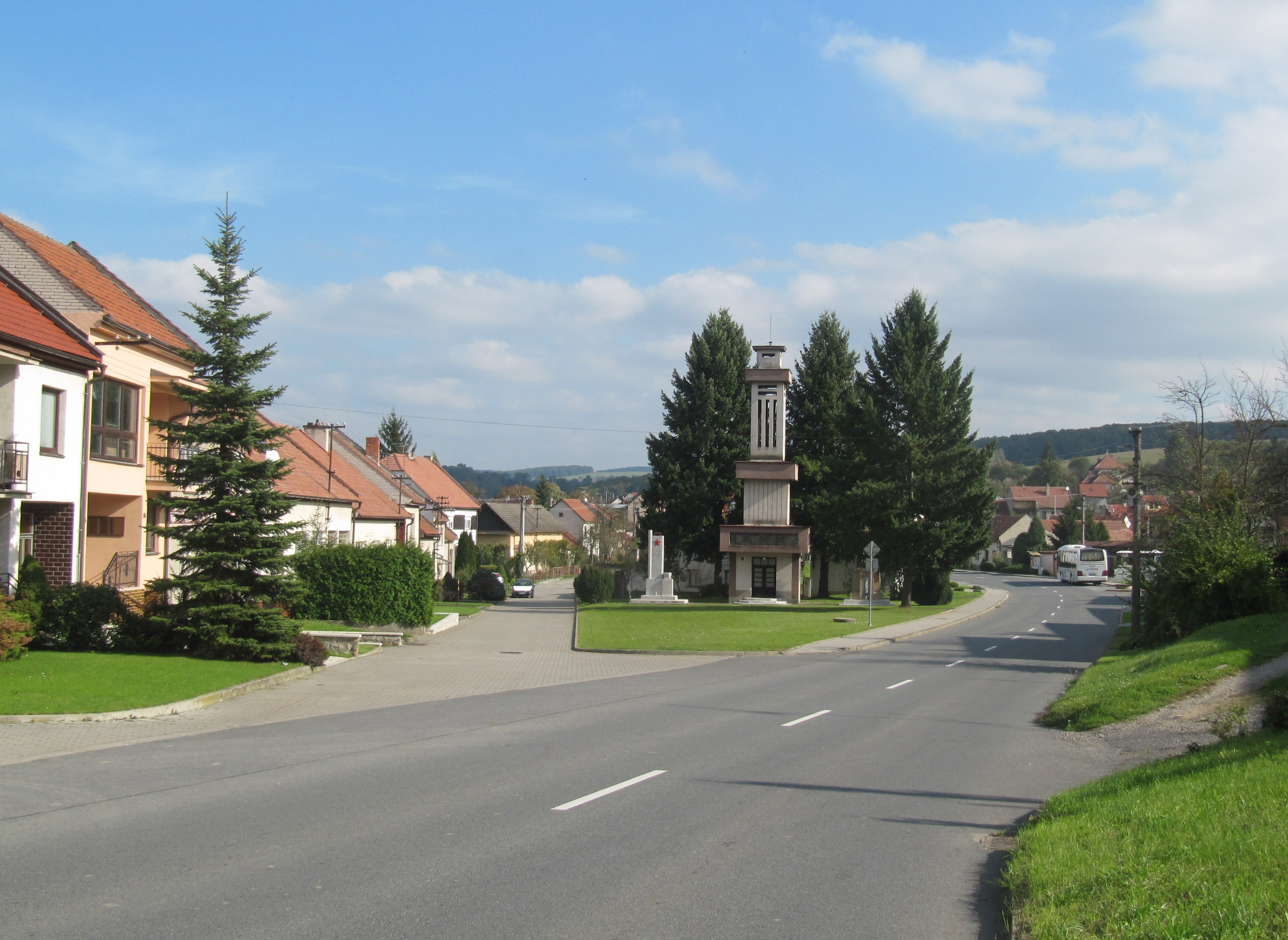 Nedachlebice, Uherské Hradiště District, Czech Republic.